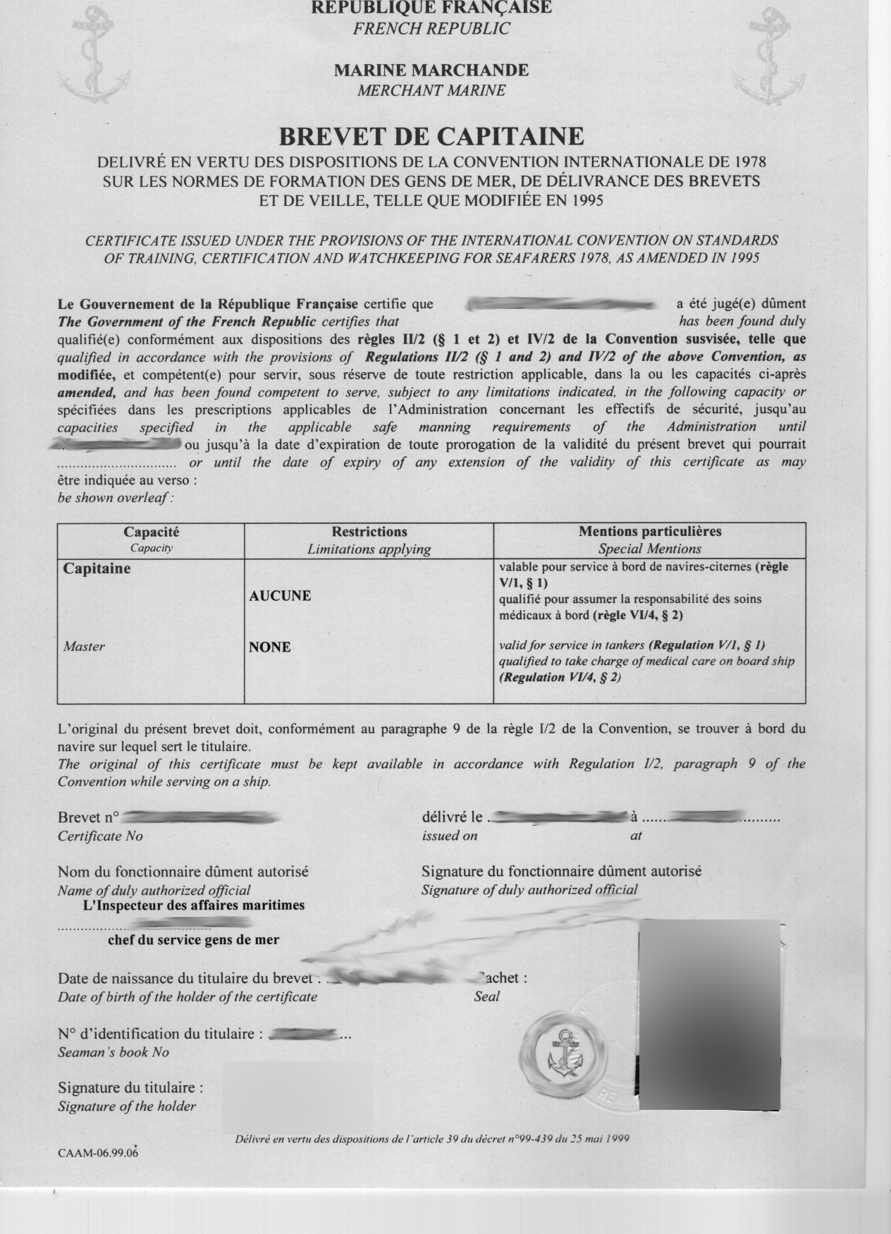 Captain license